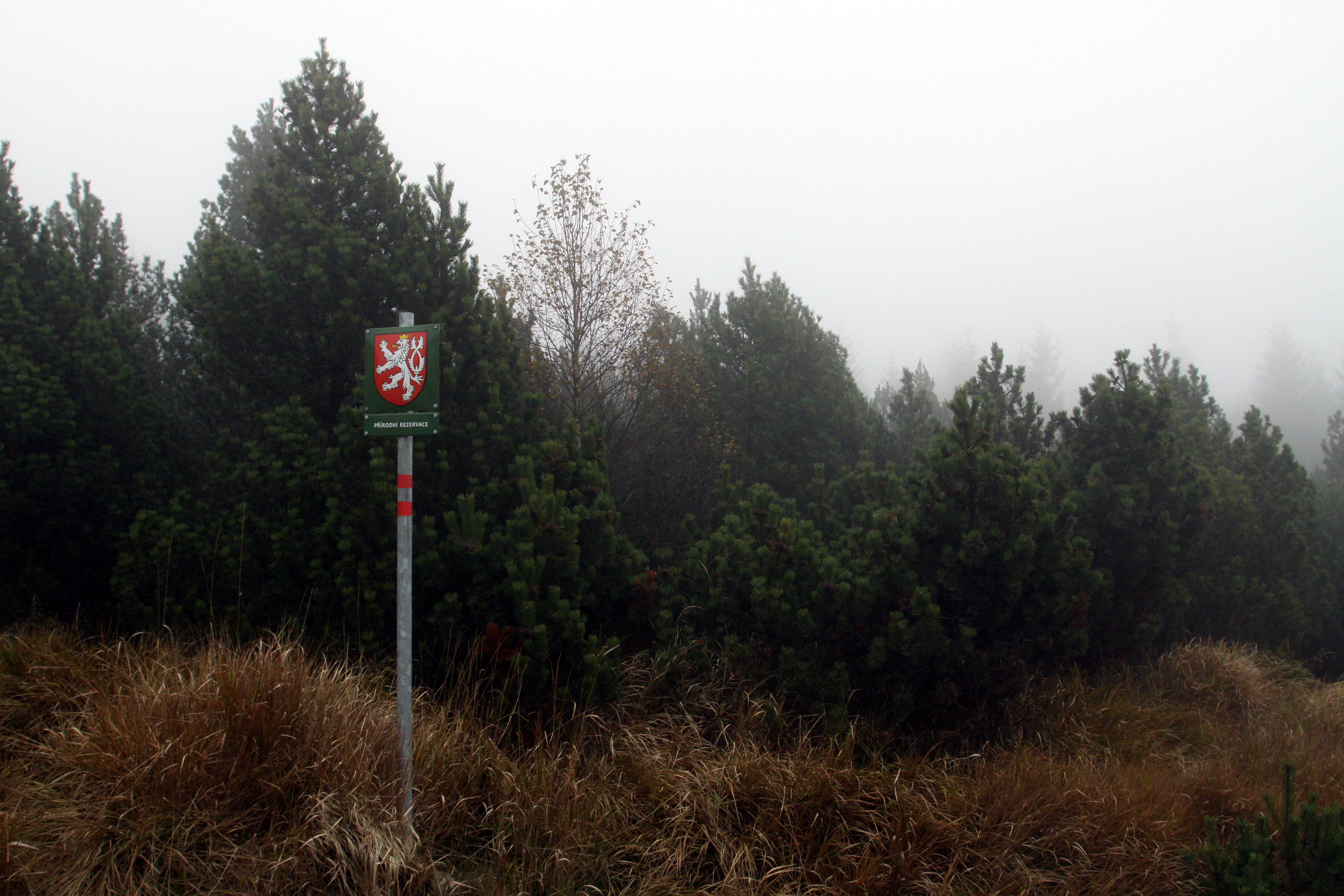 Nature reserve Rašeliniště U jezera - Cínovecké rašeliniště near Košťany village in Teplice District, Czech Republic - Google Maps - Google Earth